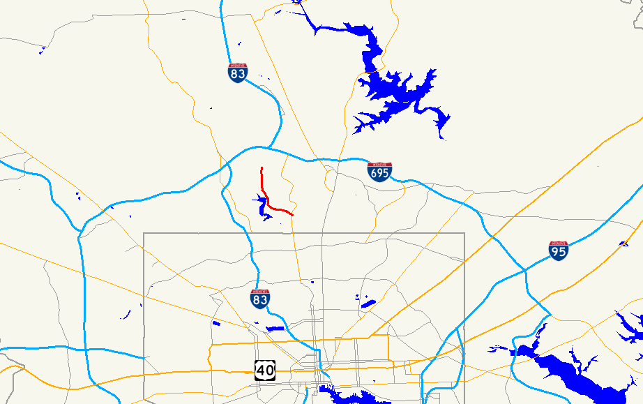 Map of Maryland Route 134